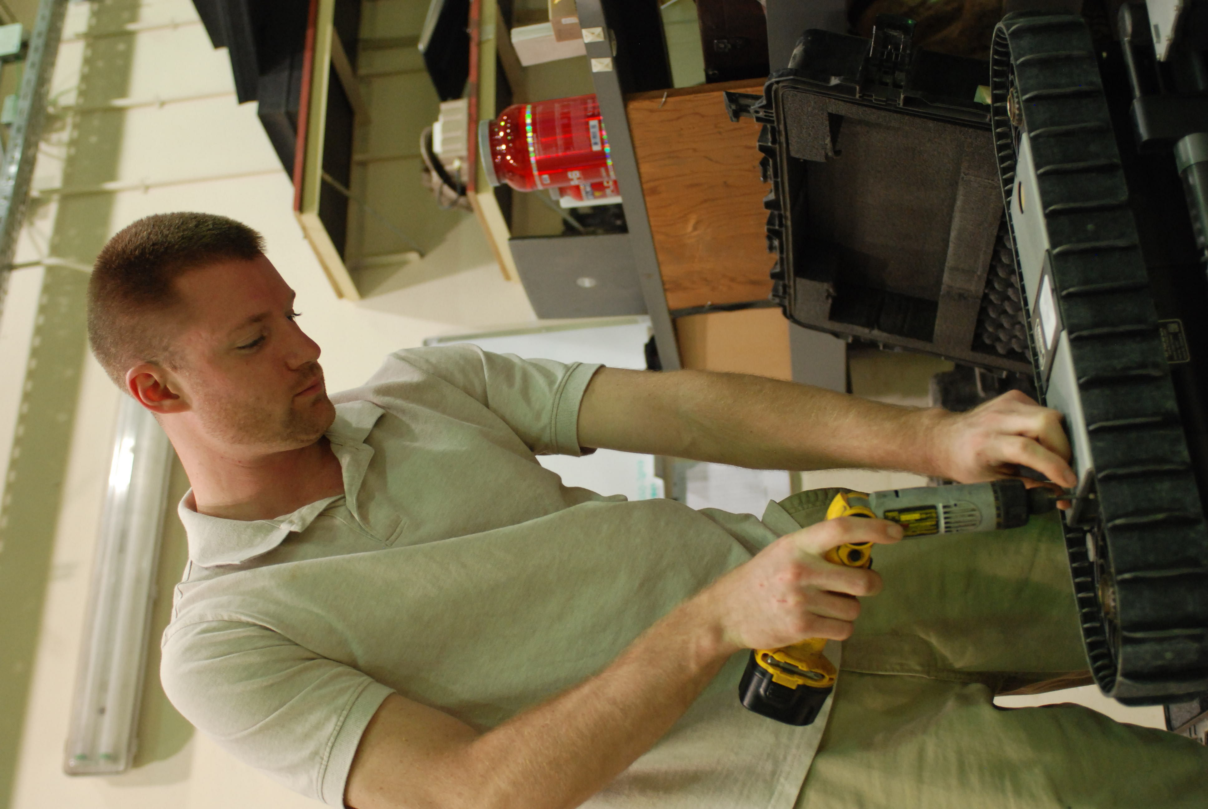 Shawn Wyzlic, a robot technician for the Joint Robotics Repair Detachment and native of Wixom, Mich., repairs a robot, one used to disarm and identify explosives, at the Joint Robotics Repair Facility on Camp Victory, Baghdad, Iraq, March 3, 2010. The robots come to the facility when needing repairs or a unit is leaving Iraq so they can be cleaned and given to another unit in need of them.